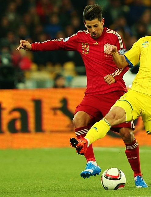 Manuel Agudo Durán